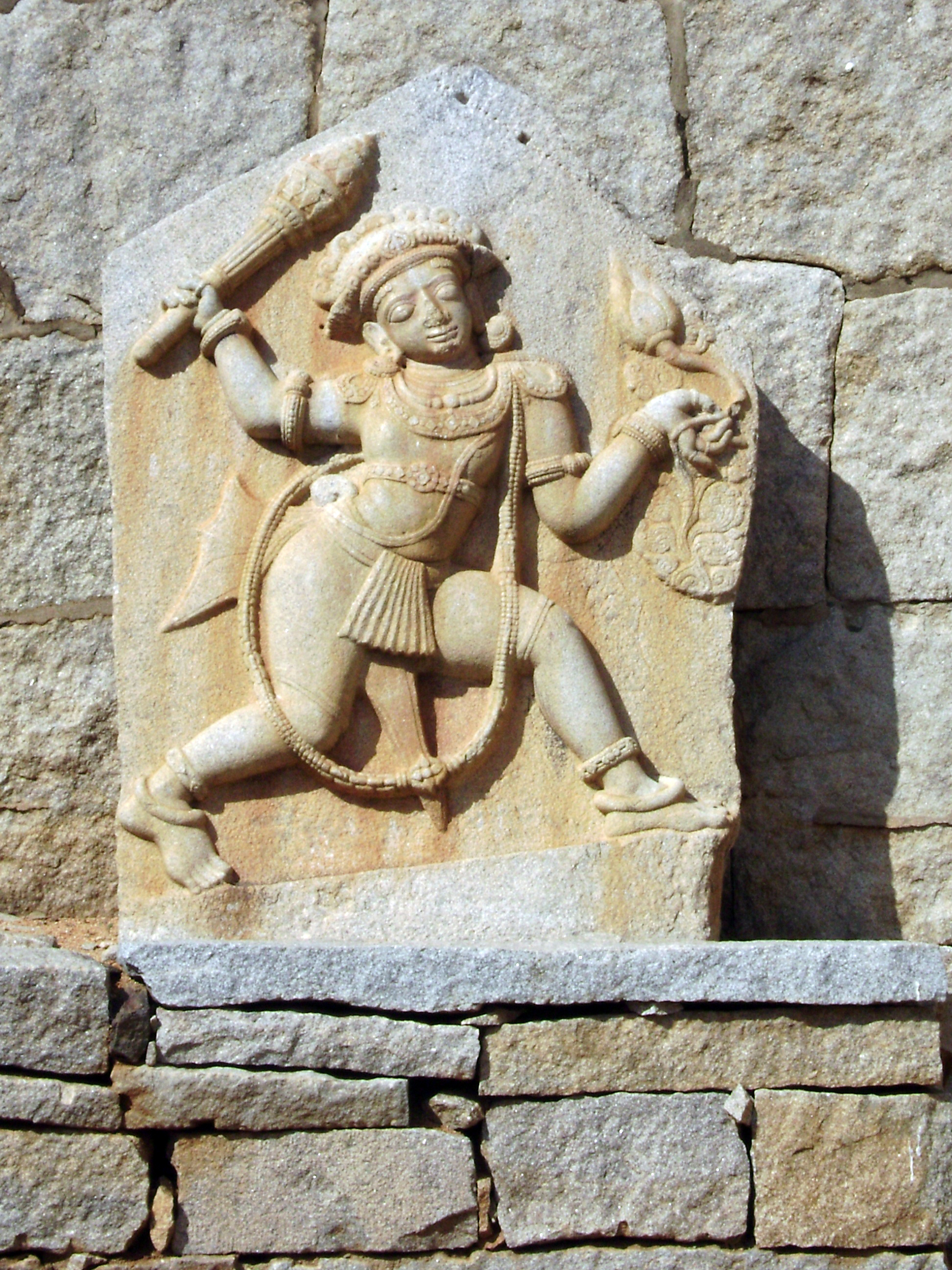 This is one of the many gateways to the walled city. The gate (a huge arch complex) is interesting with its style of construction and the carvings on it. This gateway is a classic example of the Vijayanagara military architecture. The gate got its name from the legendary Bhima of the Hindu epic Mahabaratha. A figure of Bhima – the strongest of the five Pandavas brothers – is carved on the gate. There an impressive carving of Bhima with a flower called Saugandhika. The interesting feature of the gate is its smart design. One cannot cross this archway in a straight line. You enter this gateway complex through its western arch. Straight ahead is a huge tall block of a wall like structure. You turn right, left and then once again left to go around this obstruction to reach the exit at the north. In other words this works like a blind spot for the invading army. Also it’s difficult for the elephant mounted forces to take such quick maneuvers without facing some surprise attacks. Currently this is a live excavation site. You can spot the ASI’s (Archeological Survey of India) marks on the ground. No admission fee. Usually the sites around here are devoid of big tourist crowds. Also you can spot a couple of more unnamed structures scattered around this area. Visit this on your way to Vittala Temple and Malyavanta Hill area from Kamalapura by the main road. You can spot the Ganigitti Temple on your right side just about a kilometer from Kamalapura . Bhima’s Gate is behind this temple. Courtesy hampi.in